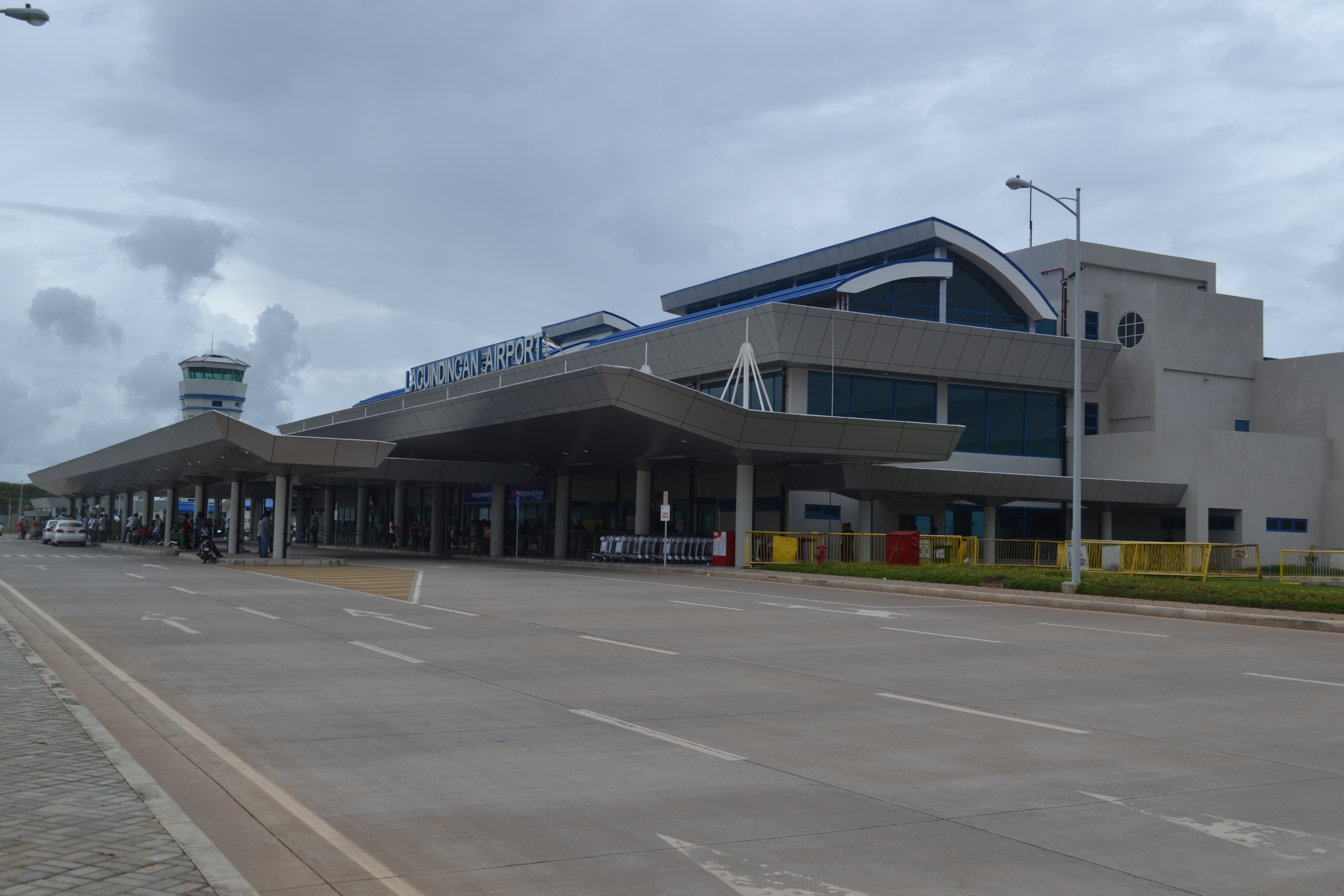 A bigger view of Laguindingan International Airport's only terminal.